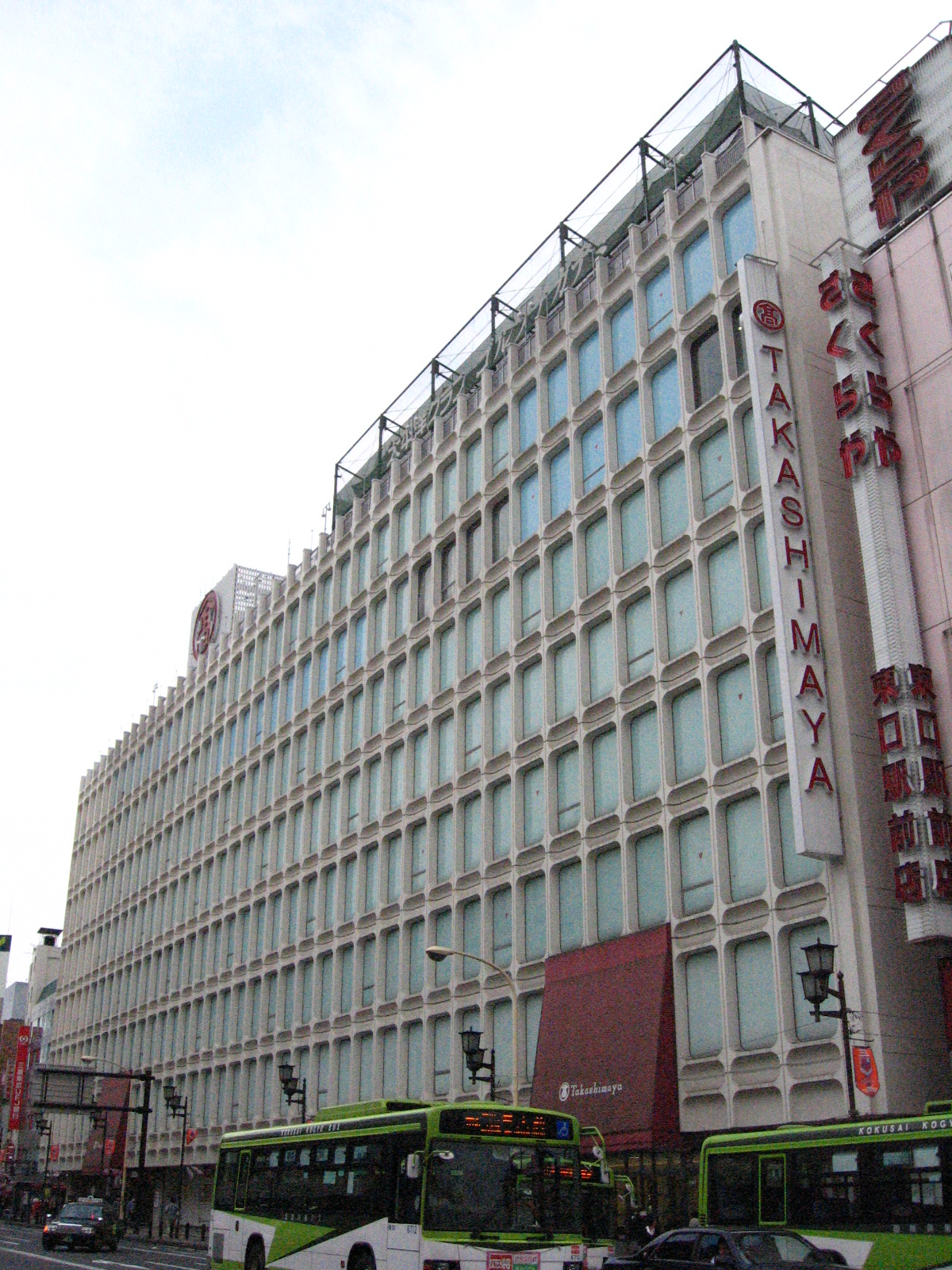 Takashimaya Omiya store from Omiya, Saitama city.